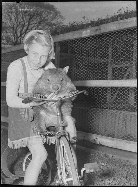 Format: Film photonegative Notes: Find more detailed information about this photograph: .au/item/itemDetailPaged.aspx?itemID=33010 Search for more great images in the State Library's collections: .au/search/SimpleSearch.aspx From the collection of the State Library of New South Wales